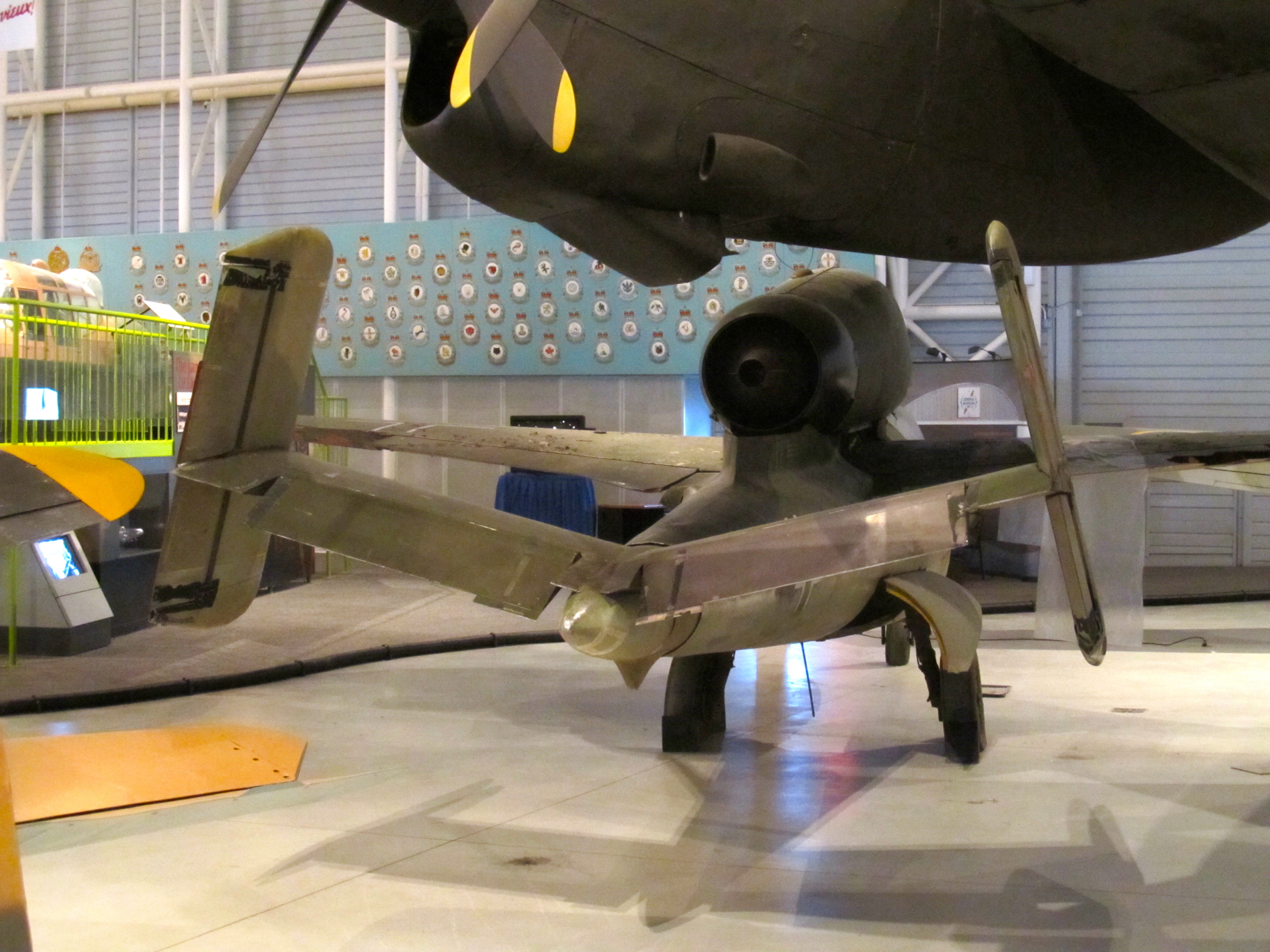 Heinkel He-162 at the Canadian Air and Space Museum, Ottawa.